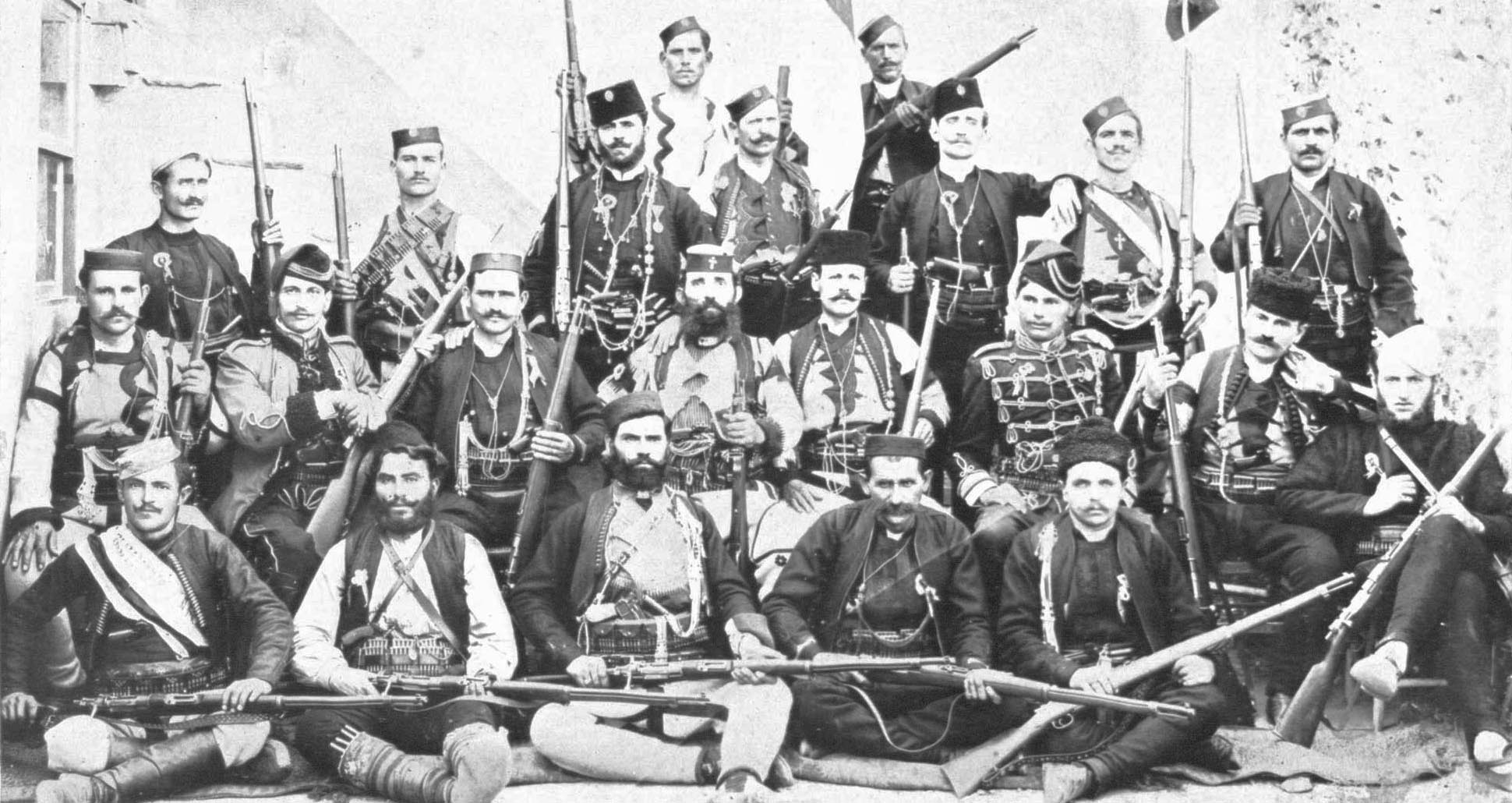 Group photo of the most notable commanders of the Serbian Chetnik Organization, taken in July 1908 during the Young Turk Revolution. Individuals, from the top, left to right: —1st row: 1. Undetermined, 2. Zafir Premčević —2nd row: 1. Živko Gvozdić, 2. Petko Ilić, 3. Rista Starački, 4. Cene Marković, 5. Denko, 6. Čuma, 7. Boško Virjanac —3rd row: 1. Koce Drenovski, 2. Đorđe Skopljanče, 3. Gligor Sokolović, 4. Jovan Dovezenski, 5. Jovan Babunski, 6. Kosta Pećanac, 7. Trenko Rujanović, 8. Milan Babović —4th row: 1. Dane Stojanović, 2. Todor Krstić-Algunjski, 3. Mihailo Josifović, 4. Jovan Dolgač, 5. Stefan Nedić-Ćela